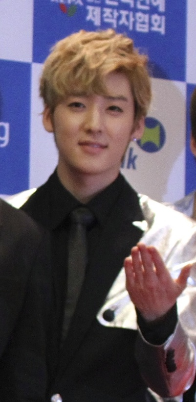 Group photo of U-Kiss taken at the press conference for Dream Concert 2013. Taken and shared by K-Soul Magazine for the U-Kiss information page.